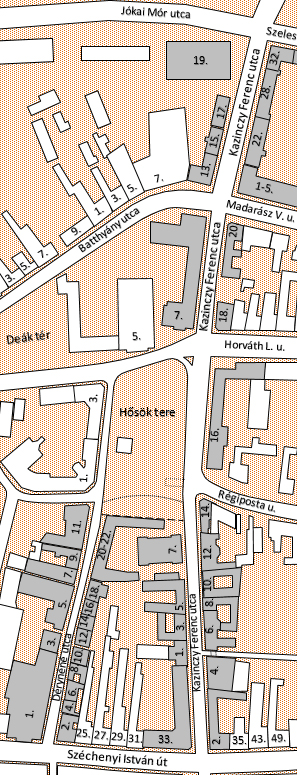 Map of Déryné and Kazinczy utca, Miskolc, Hungary